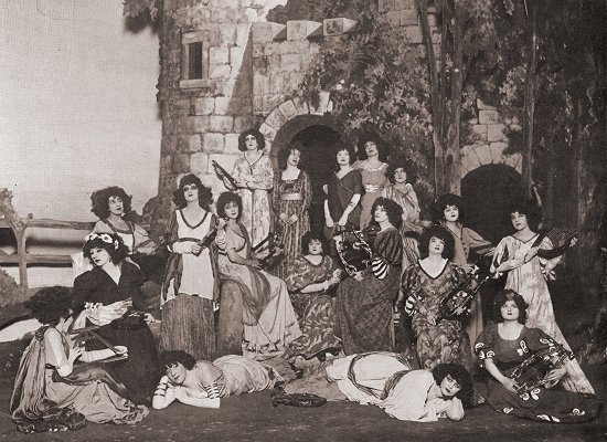 Image of the "rapturous maidens" in the 1919-20 production of Patience